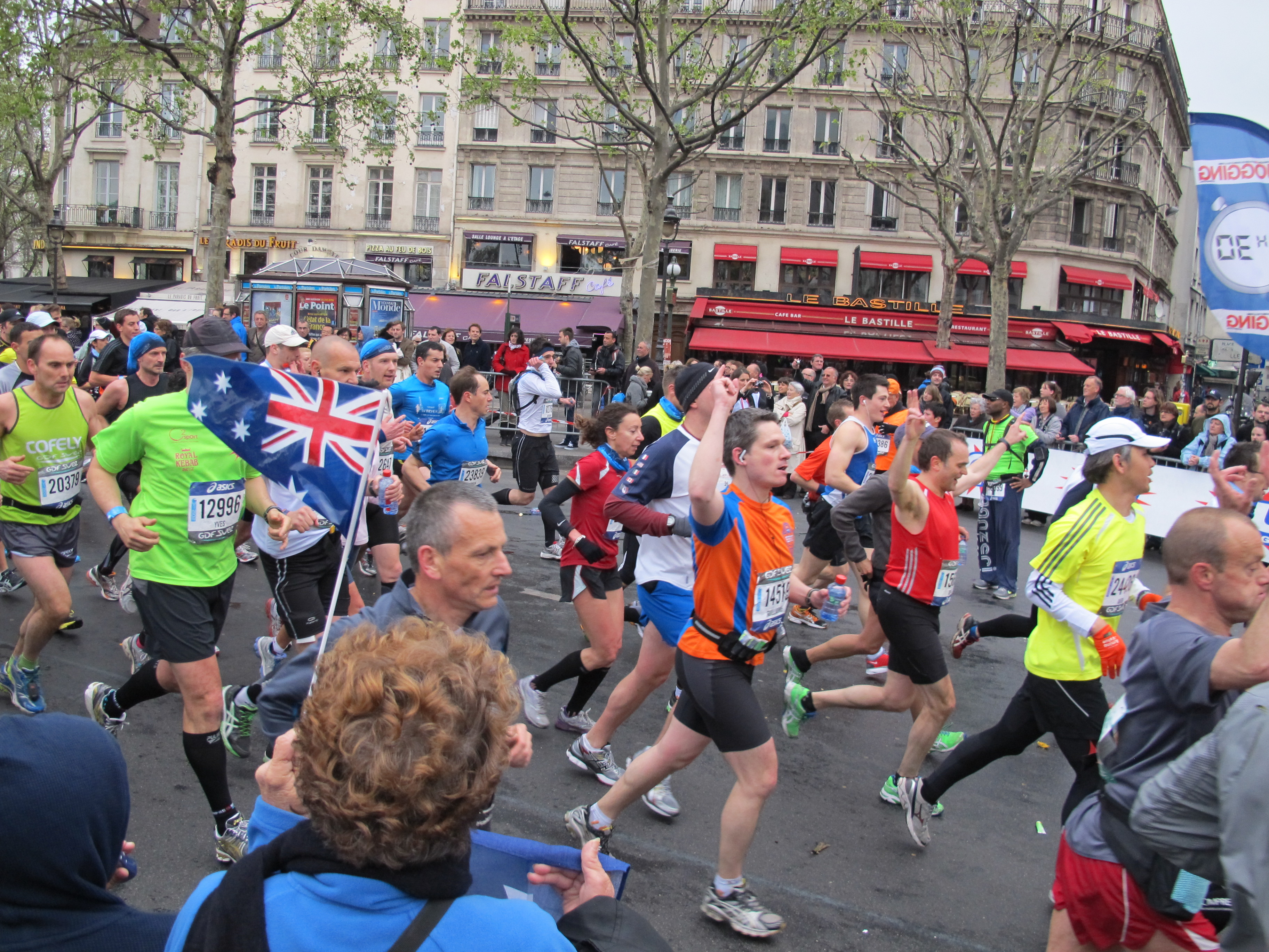 Paris Marathon 2012 - 26